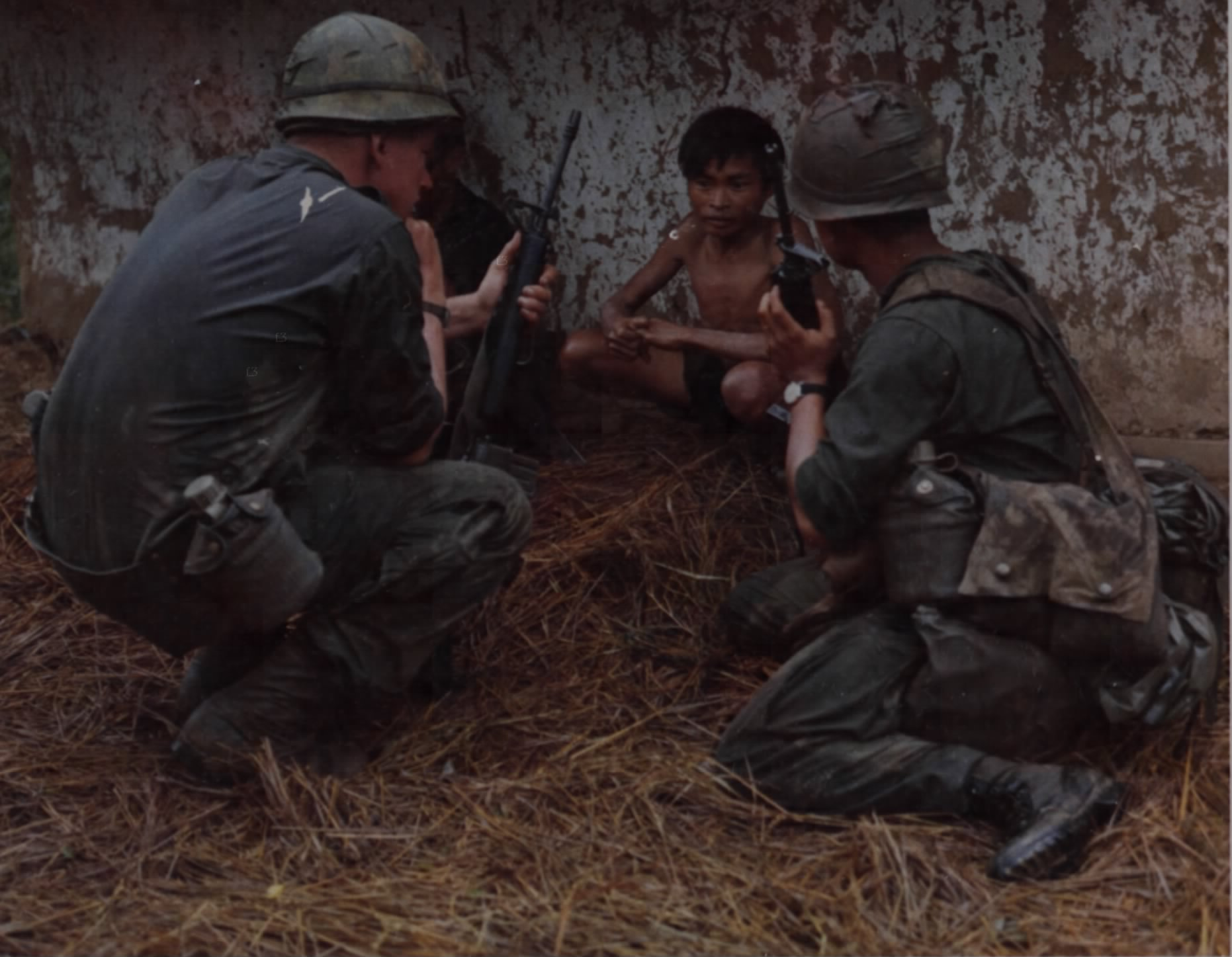 As the second phase of Operation Thayer, the 1st Cavalry Division (Airmobile) is having Operation Irving in the area 25 miles north of Qui Nhon which lies 400 miles north-northeast of Saigon. The 1st Cavalry was given the mission of clearing a mountain range where an estimated two battalions of North Vietnamese regulars were supposed to be massing for an attack on Hammond Air Strip. Captain Harold T. Fields, "A" Company, 1st Battalion, 12th Infantry, and interpreter question Vietnamese man